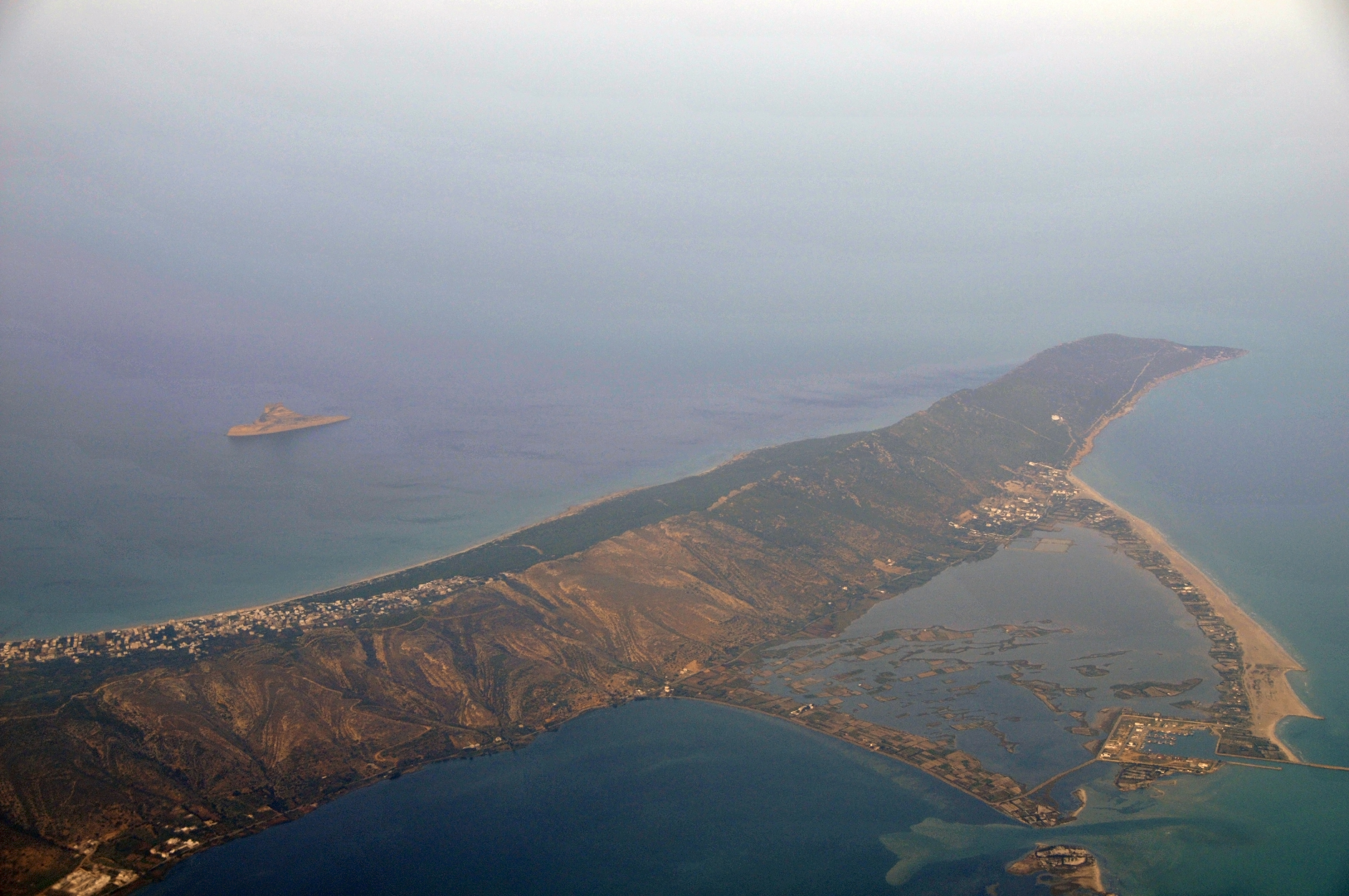 Aerial view of Cap Farina, north Tunisia